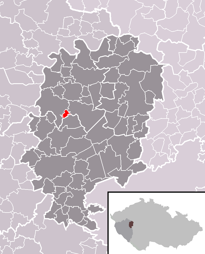 Location of Bezděkov municipality within Rokycany District and within identical administrative area of Rokycany as a Municipality with Extended Competence.